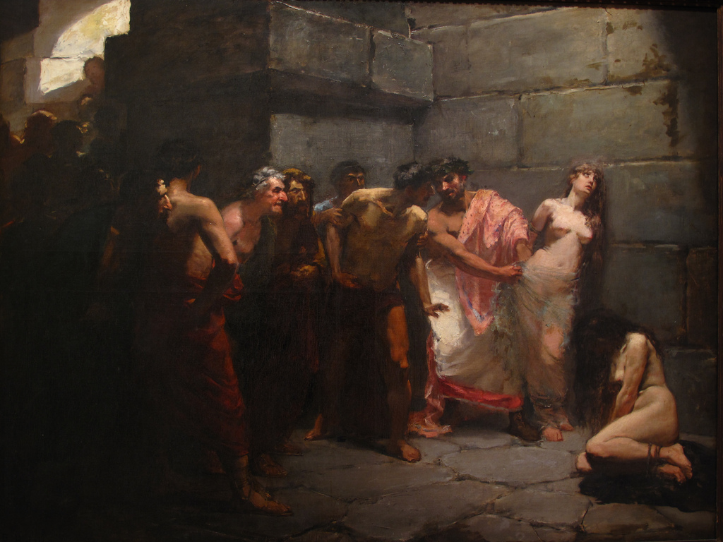 Las Virgenes Cristianas Expuestas al Populacho painting by award-winning Filipino painter and hero Félix Resurrección Hidalgo.